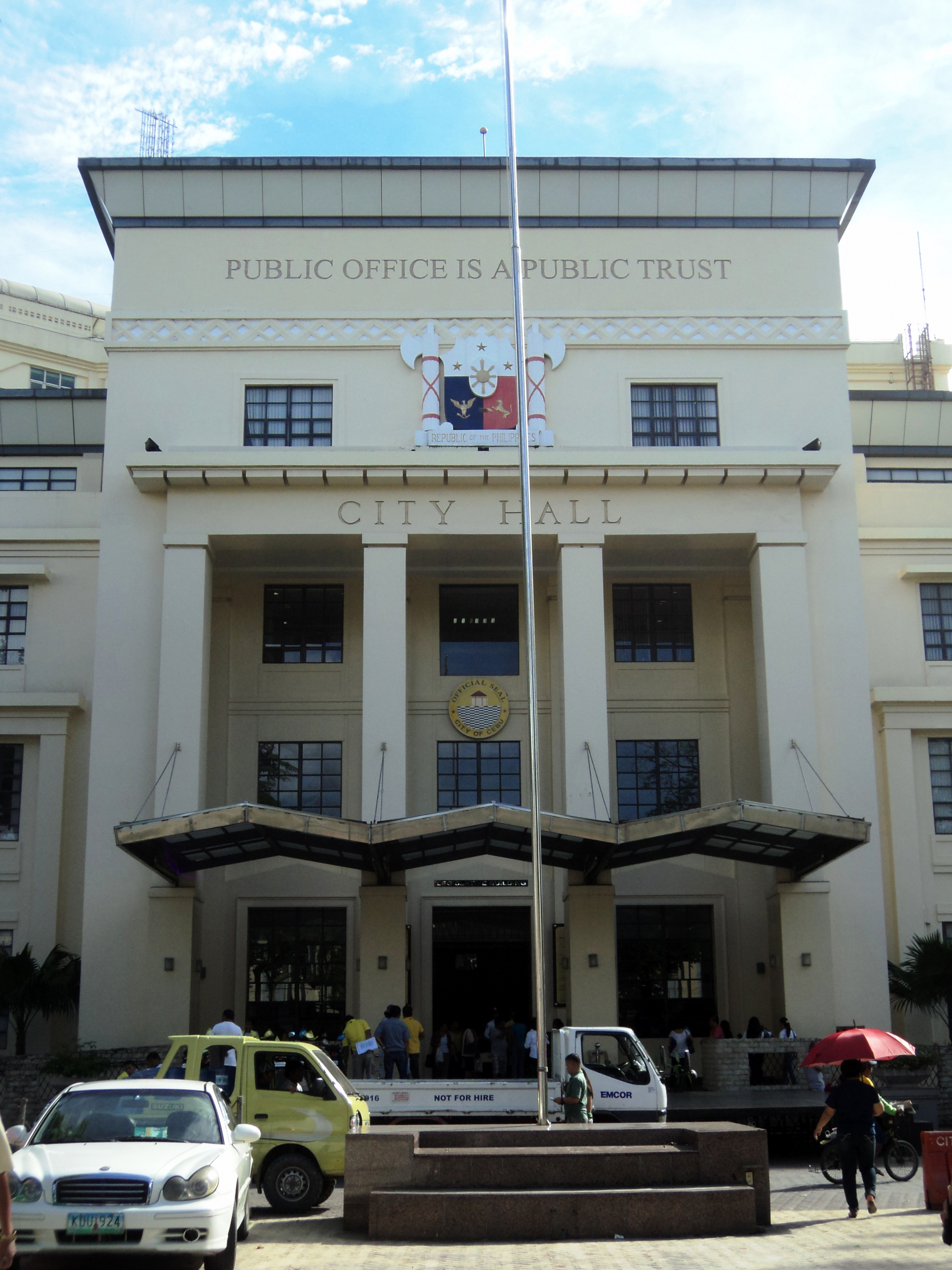 City Hall of Cebu